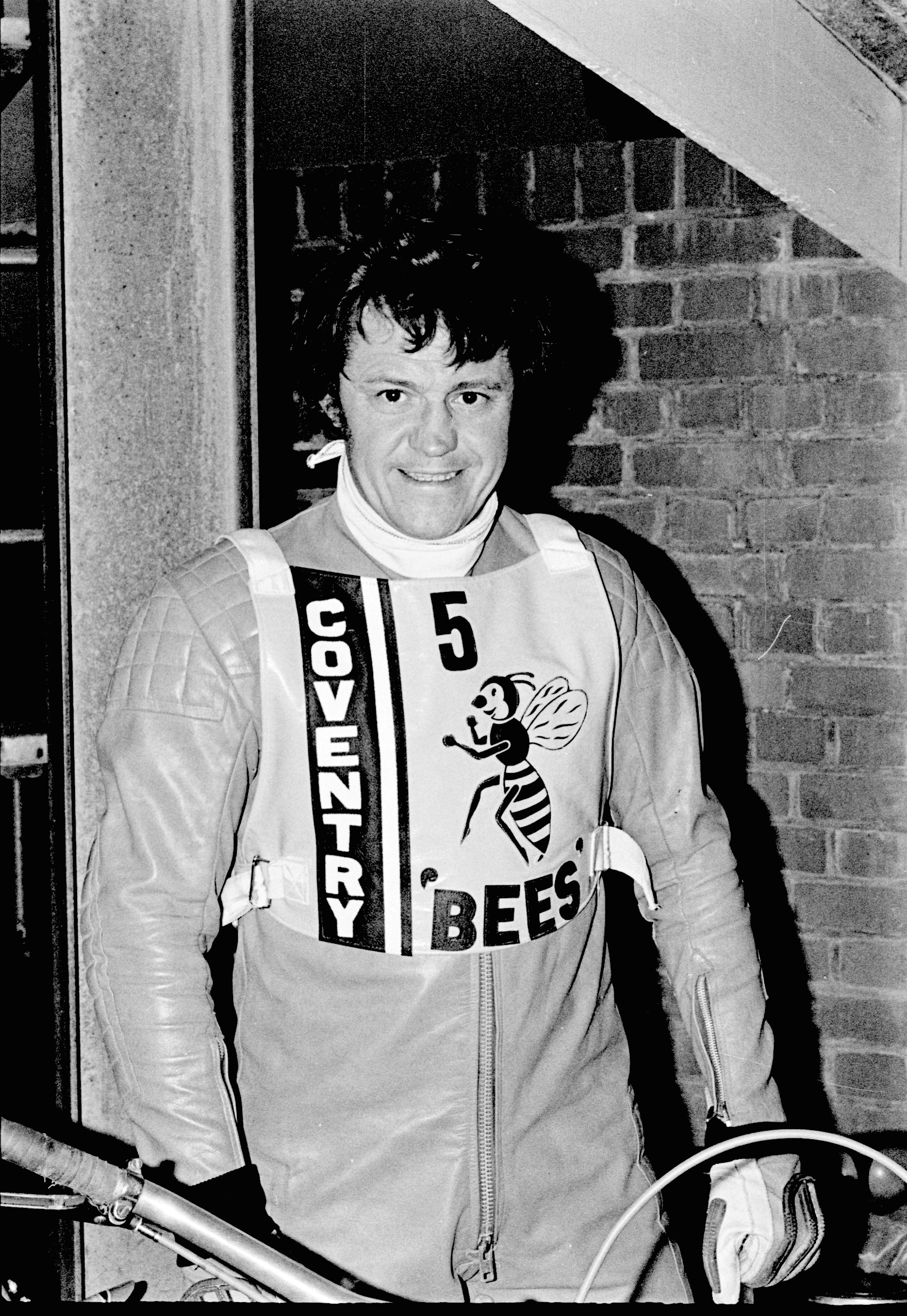 Nigel Boocock, England and Coventry,before the match against Belle Vue Aces 27th March 1976.